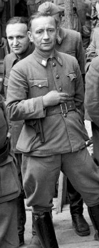 Sulejman Filipović during the Second World War in Yugoslavia, May 1944